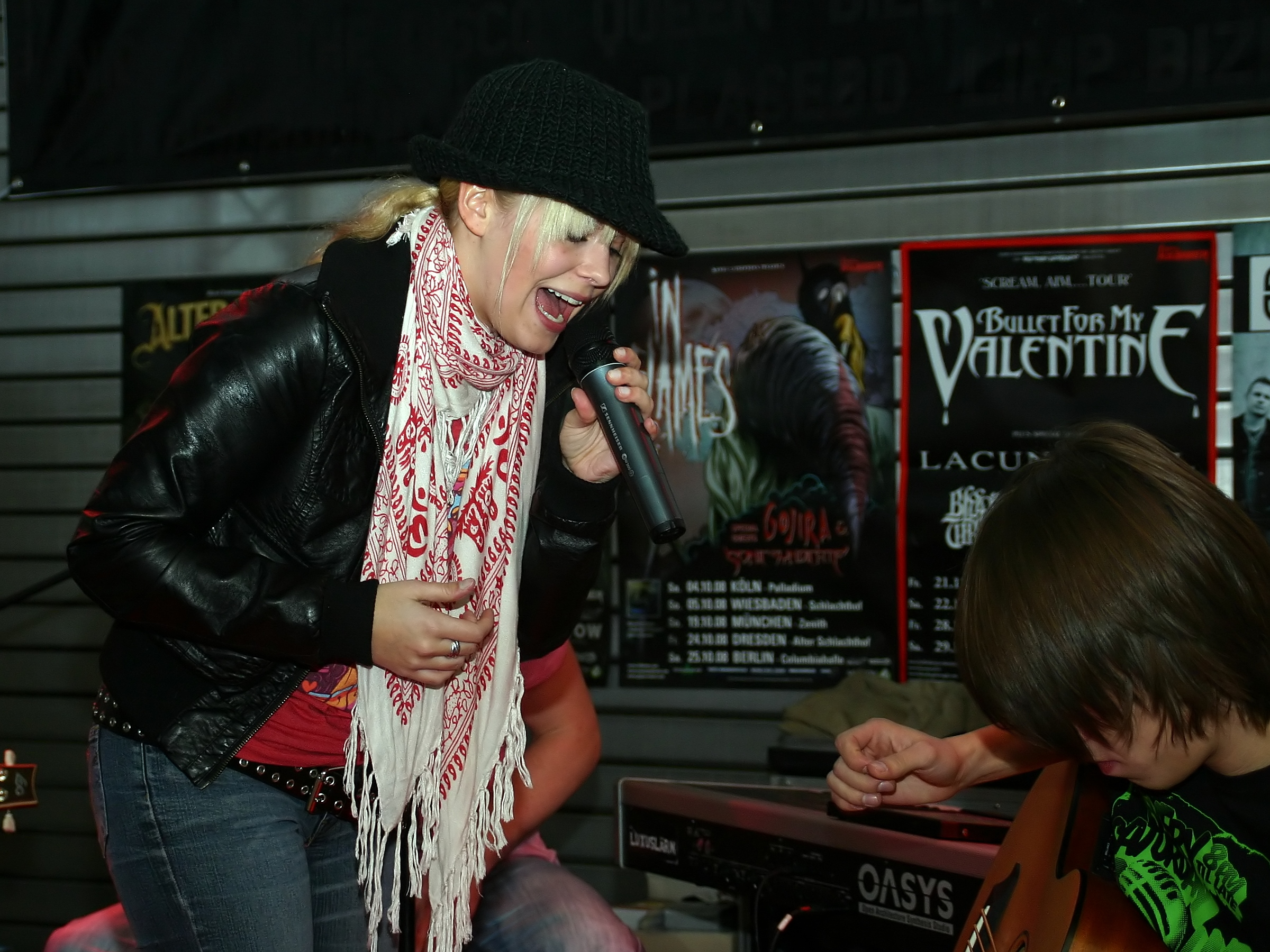 Musical group "Luxuslärm" on the booth of STAR FM, youth fair "YOU", Berlin